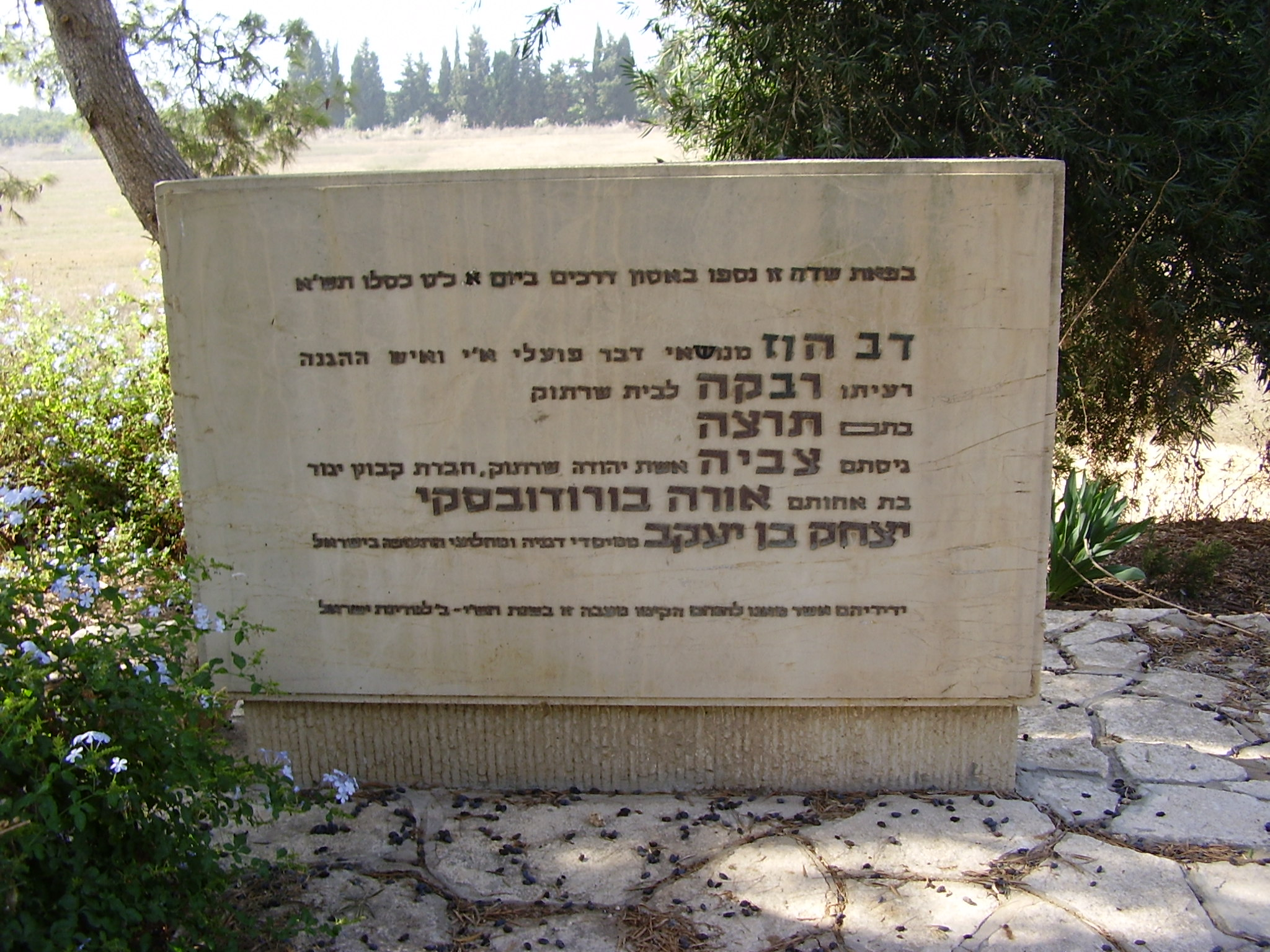 Dov Hoz family memorial